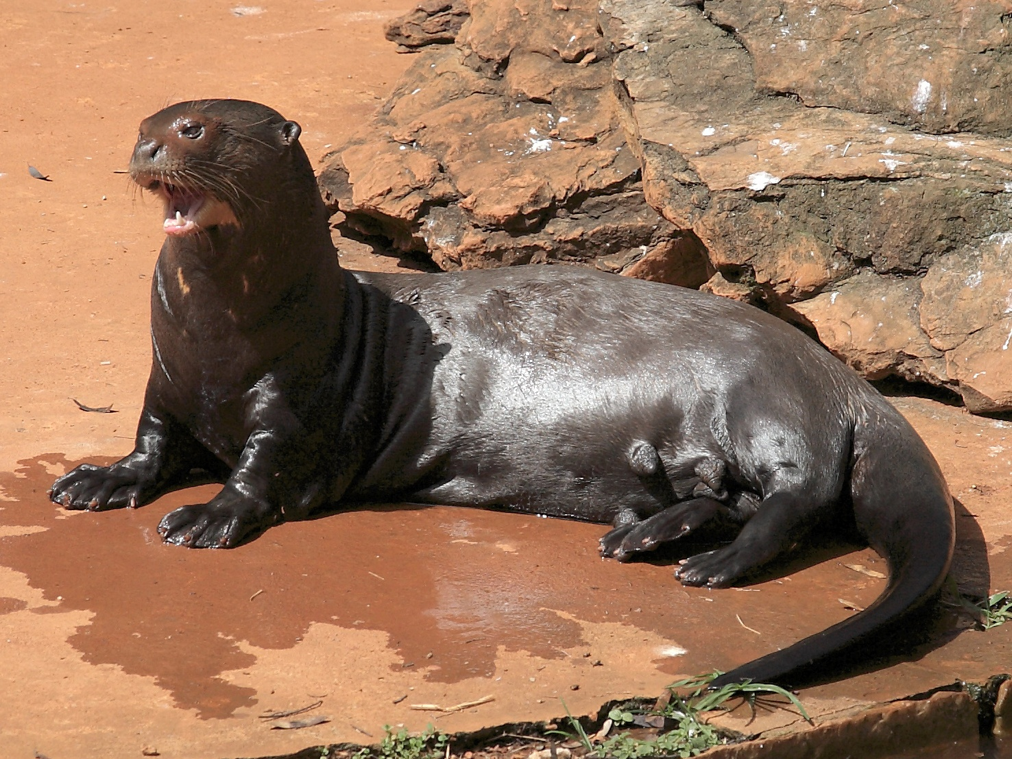 A female Giant Otter (Pteronura brasiliensis) at the zoo of Brasília, Brazil.